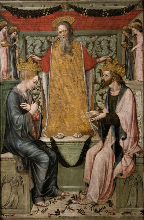 from an altarpiece for the chapel of Sant'Agostino, in Cremona. The figures are also thought to represent Saints Daria and Grisante. The altarpiece was commissioned by the Ducal family of Milan, and commemorated the saints' feast day of October 25, which was also the anniversary of Francesco Sforza and Bianca Maria Visconti, married in 1441. The panel currently resides in the Museo Civico Ala Ponzone, in Cremona.